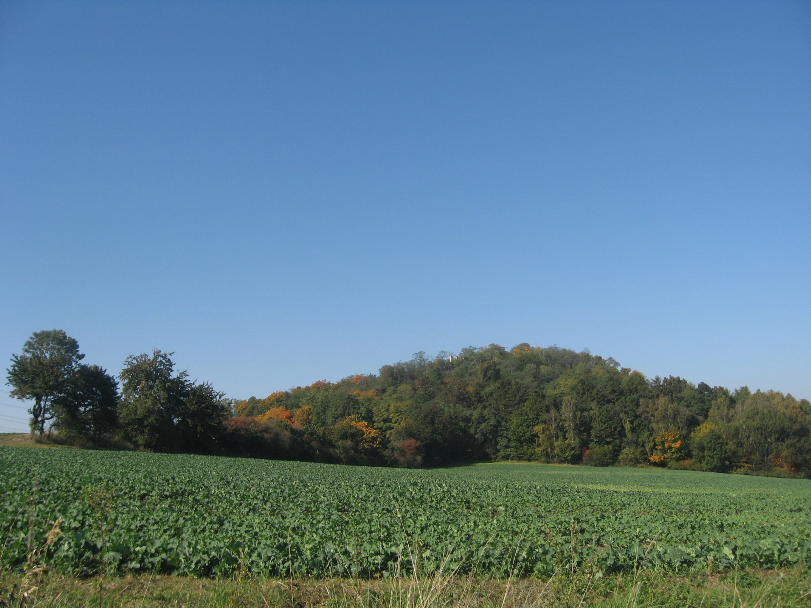 Pohradická hora with the rests of observation tower Aloisova výšina